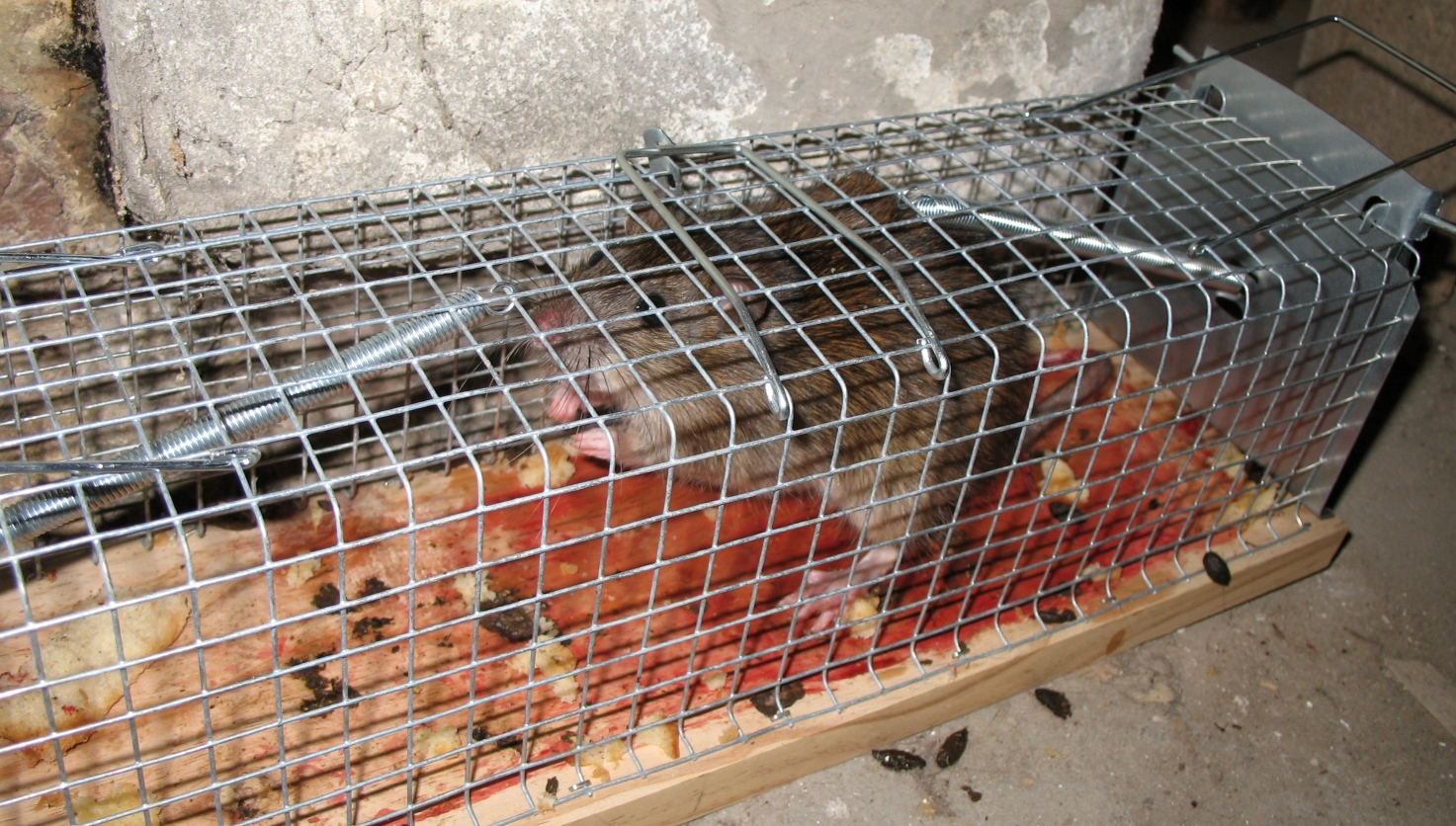 Rat trapped in a live-catch cage rat trap